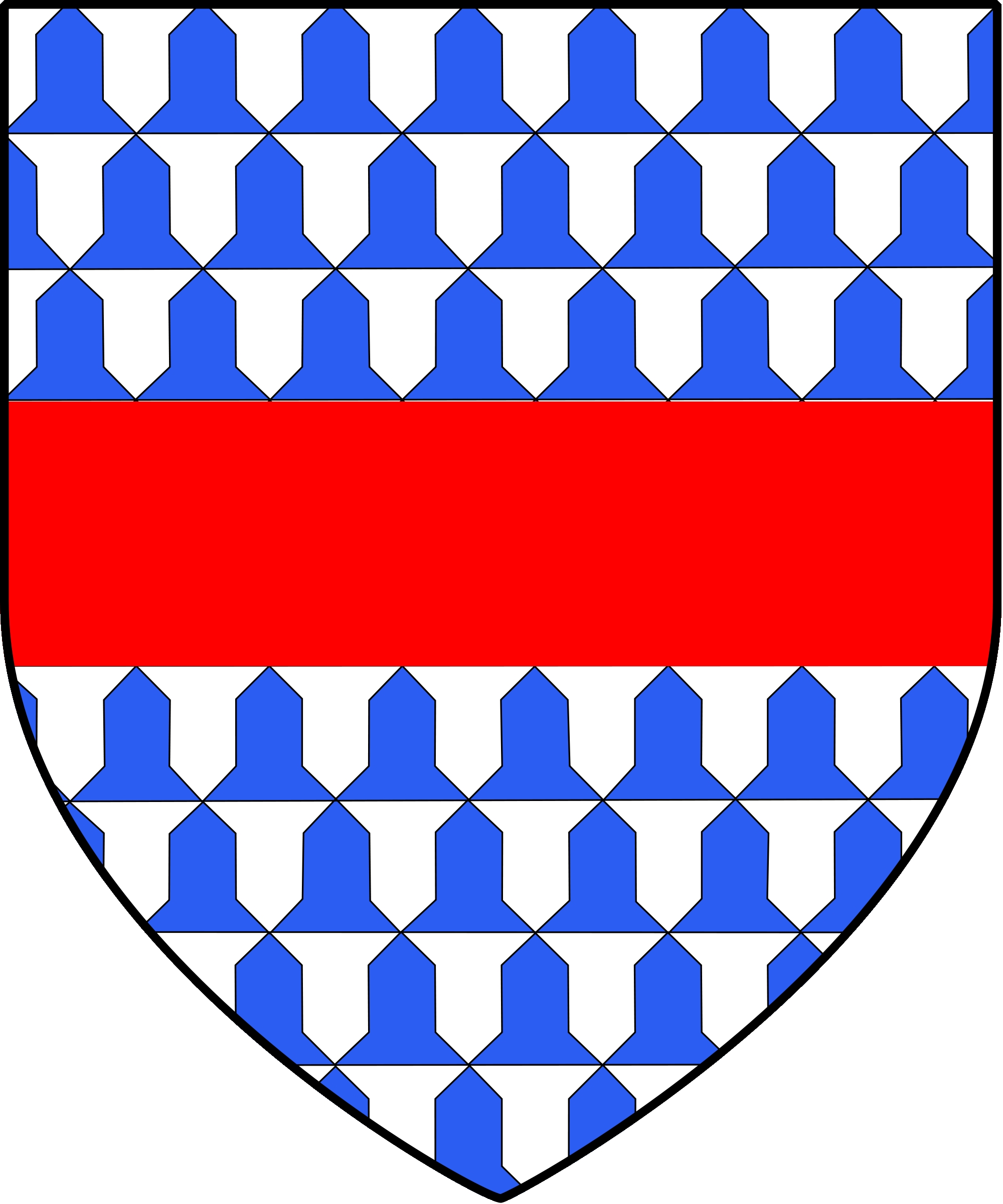 Coat of arms of the Marmion Family of Tamworth Castle; Incorporates: File:Héraldique fourrure vair.svg. Blazon: Vair a fess gules.